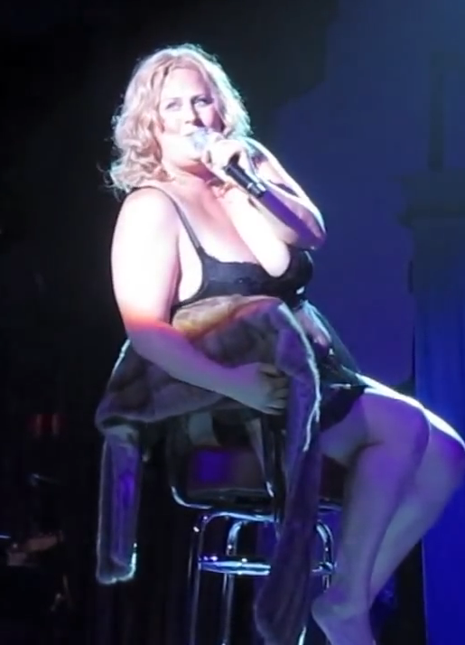 Bridget Everett performing at La Mama Theater on 06/09/12